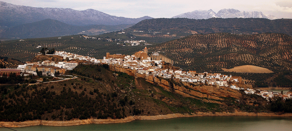 View of Iznájar, Spain.